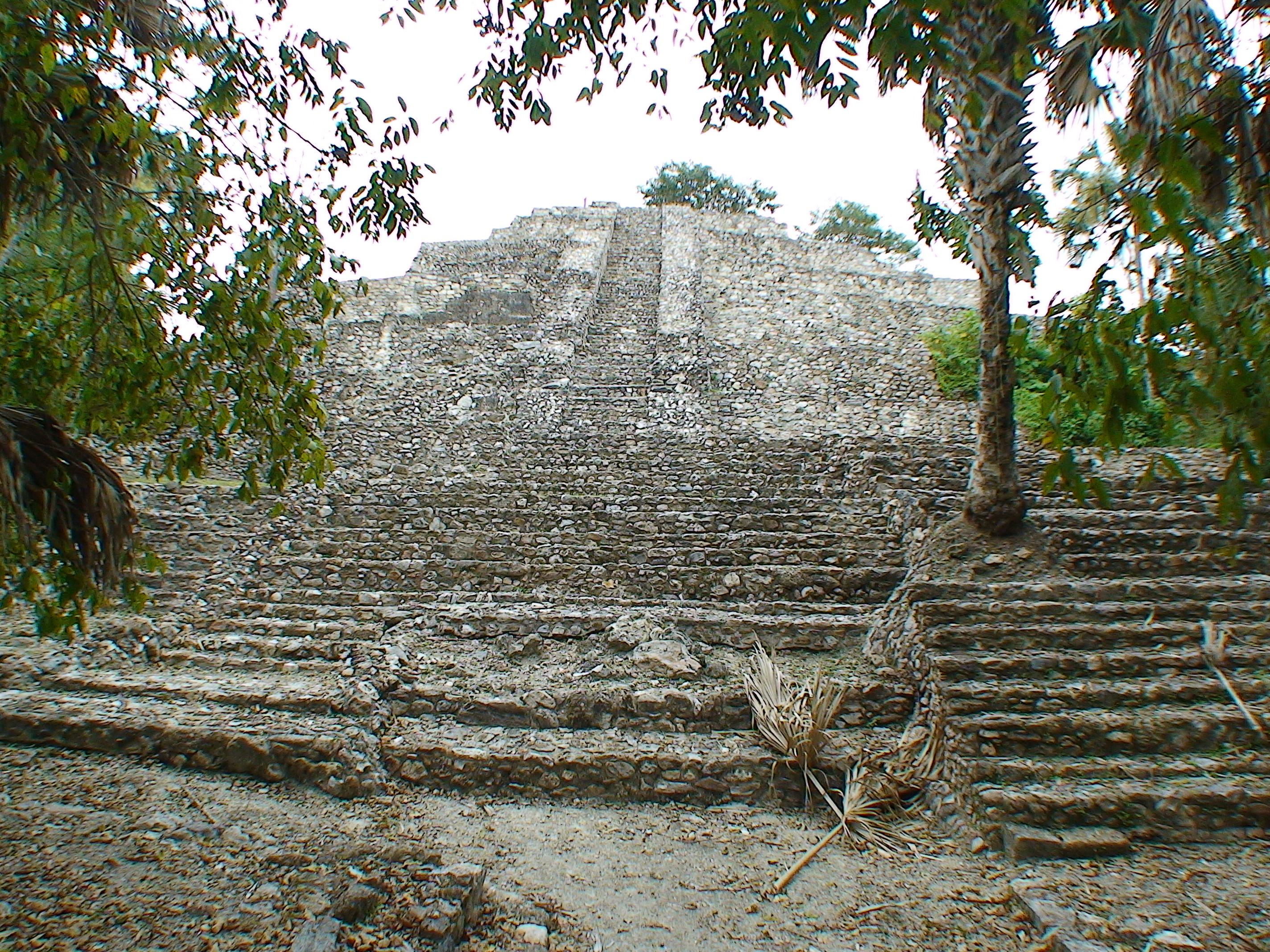 Itzamkanac, Campeche, Mexico: Pyramid